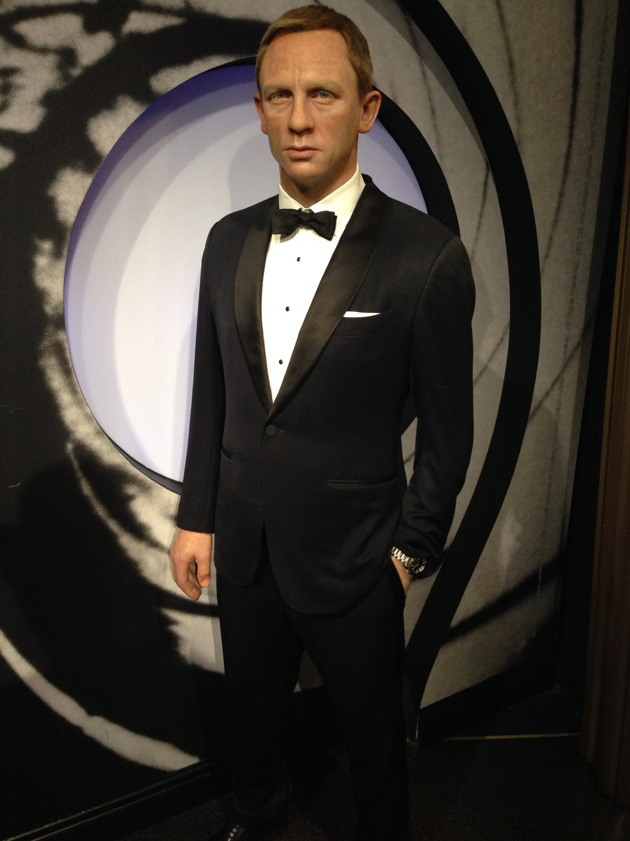 James Bond (Daniel Craig) figure at Madame Tussauds London